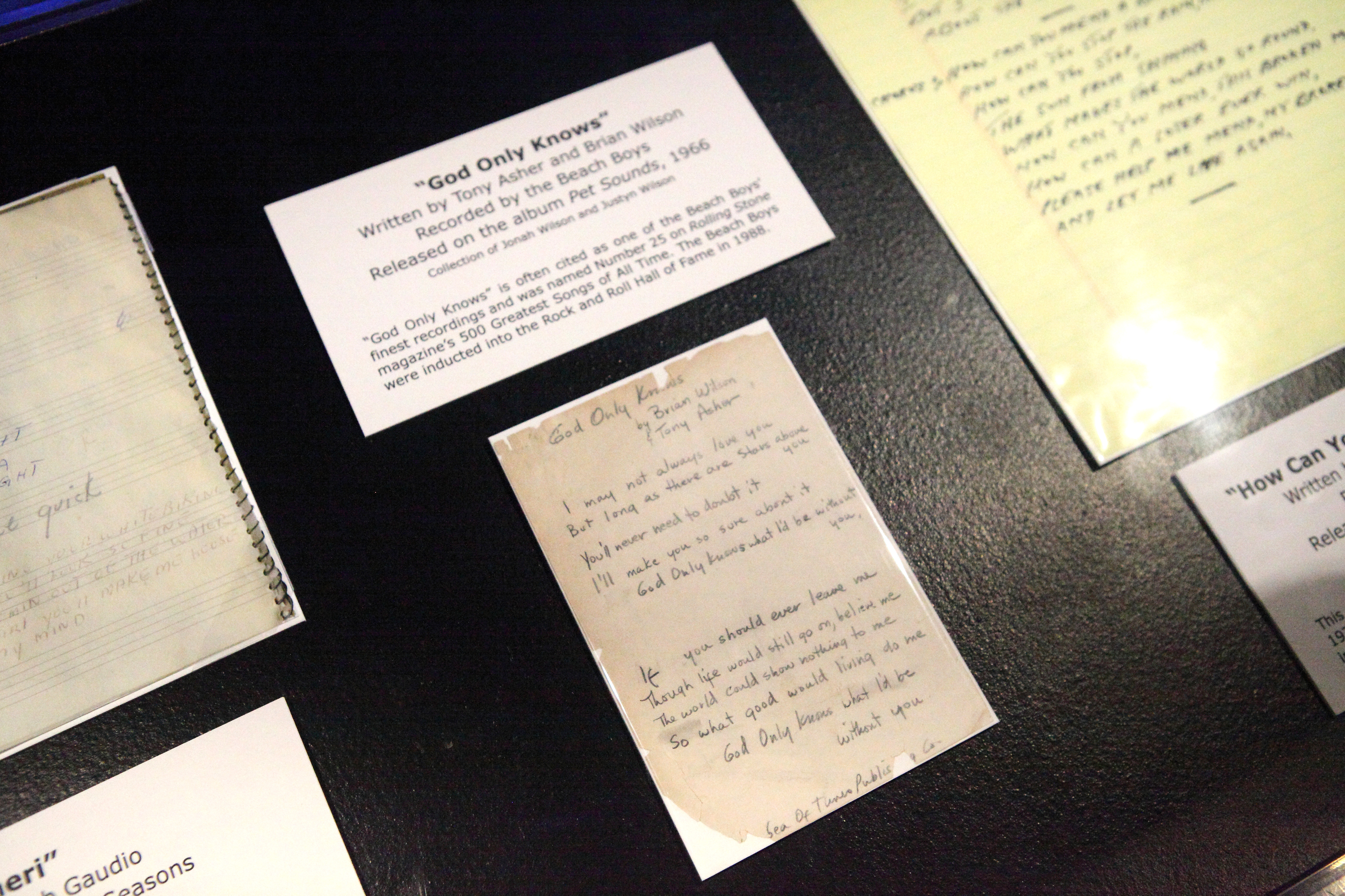 Handwritten lyrics to "God Only Knows" from Brian Wilson and Tony Asher at the Rock and Roll Hall of Fame in Cleveland, Ohio. Flickr Tags: ohio cleveland brianwilson rockandrollhalloffame thebeachboys godonlyknows tonyasher. Flickr Tags: Rock and Roll Hall of Fame Cleveland Ohio. from Flickr album "Rock and Roll Hall of Fame" by Sam Howzit